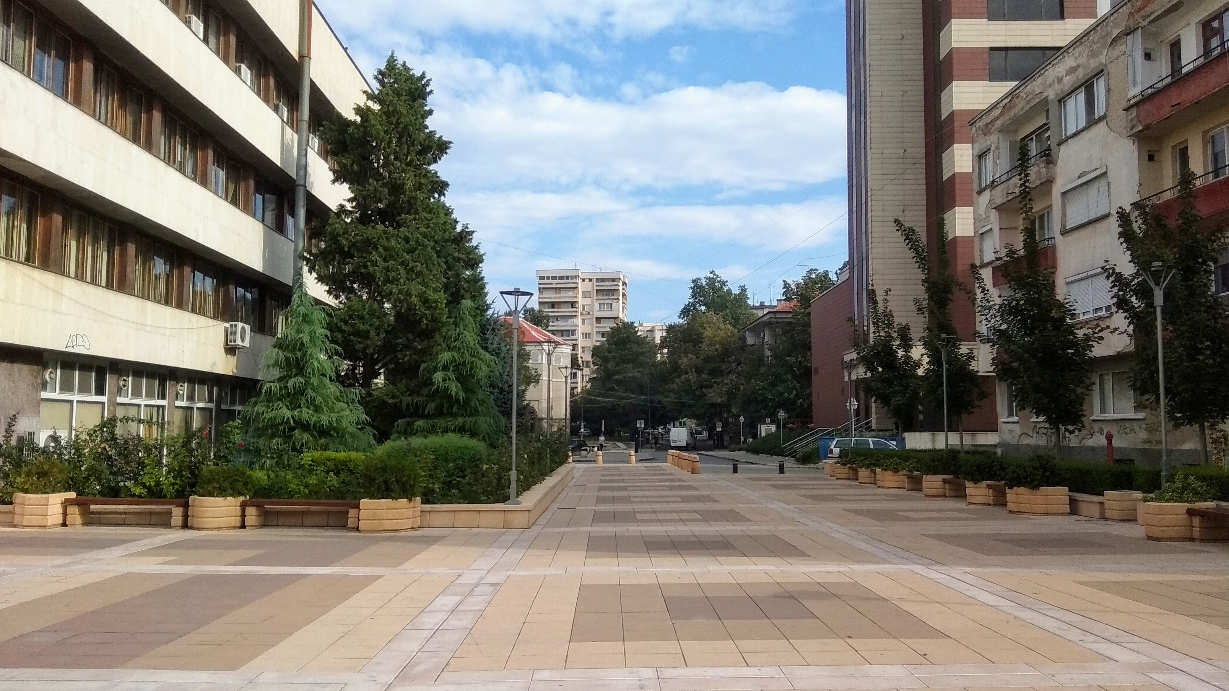 Picture of Yambol, Bulgaria from September, 2018. Municipality building and Rakovsky Str. after renovation.